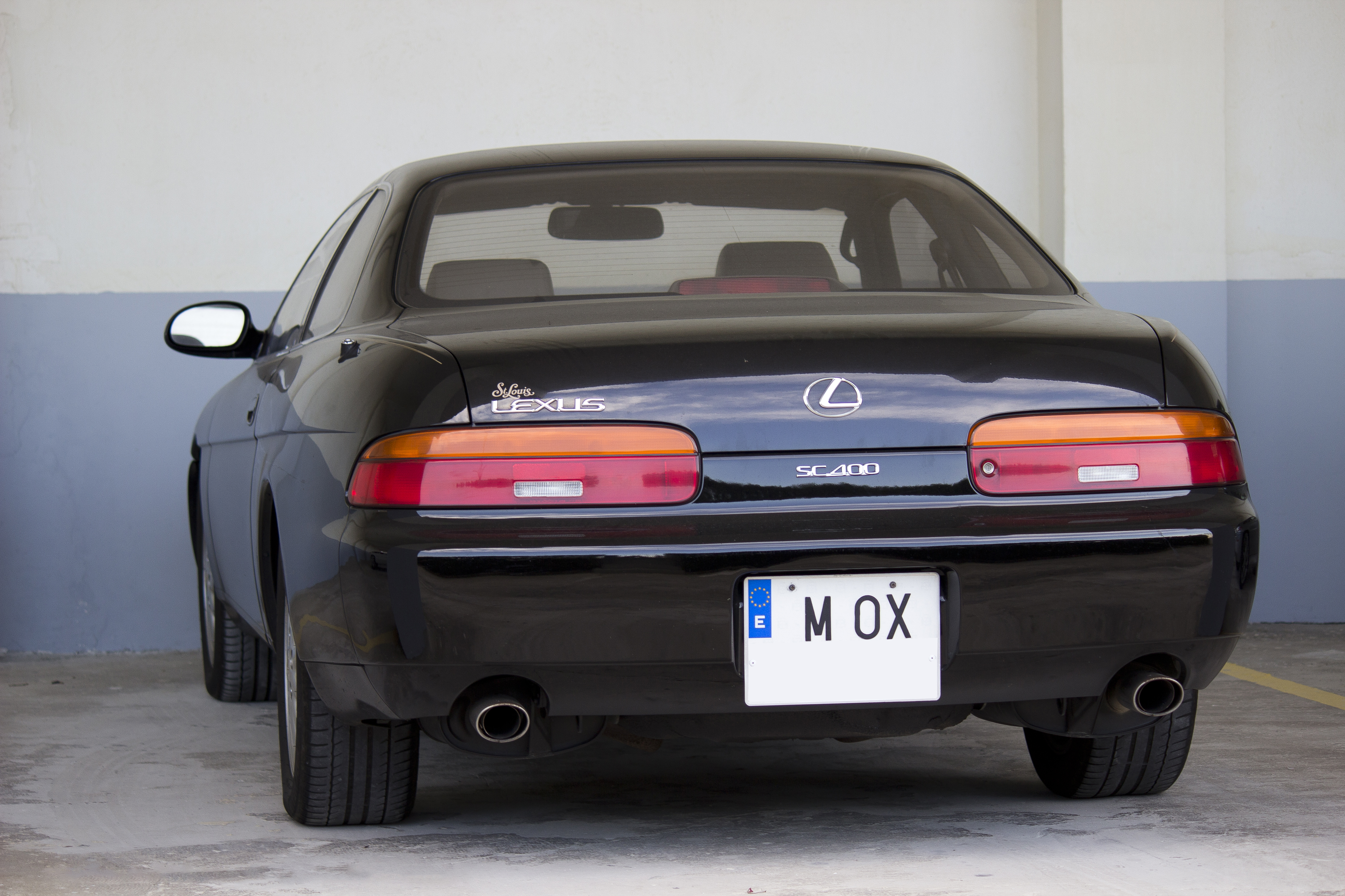 Want! This is the second import I've seen here, They look oh so great.